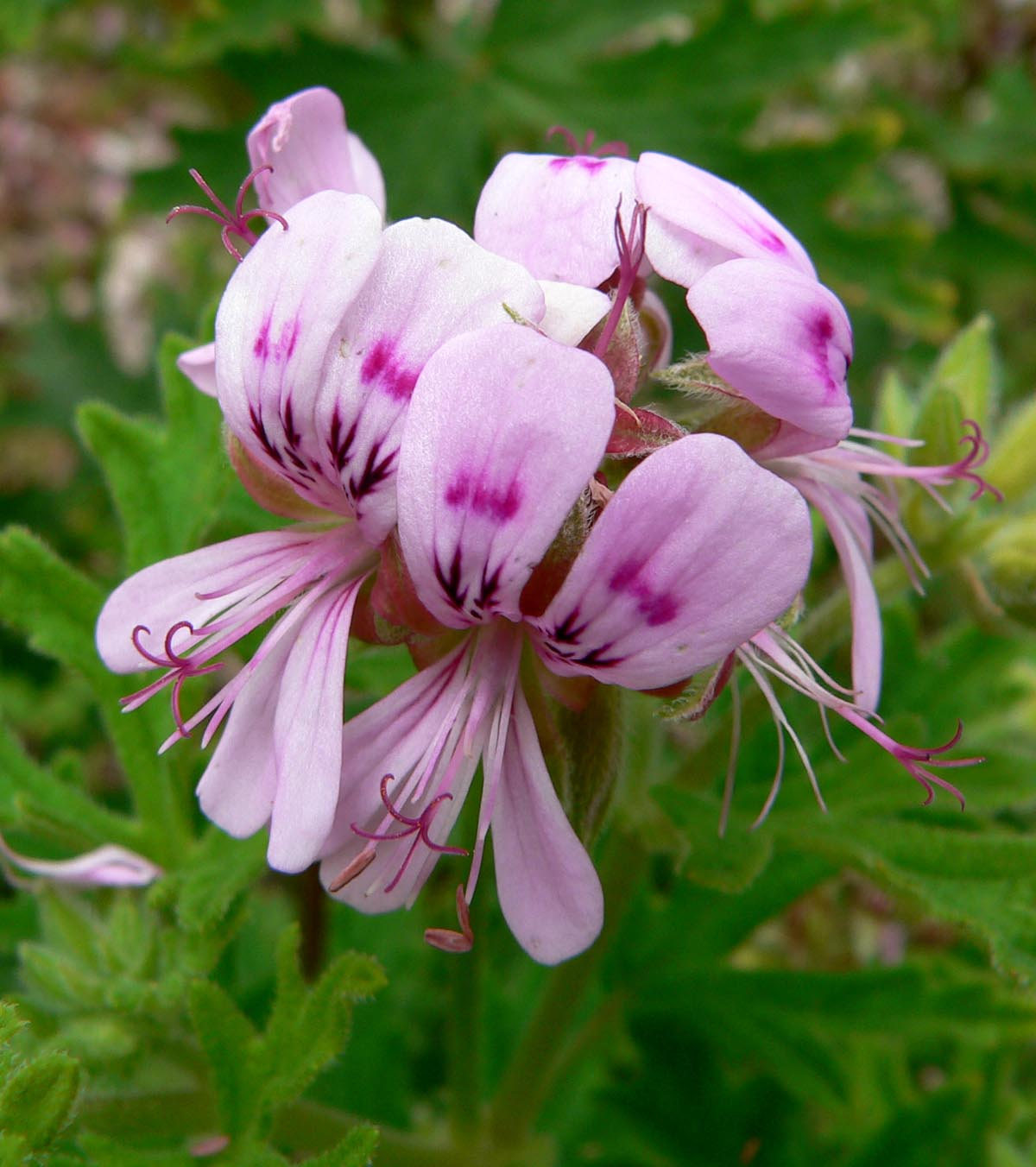 Photo of Pelargonium graveolens at the San Francisco Botanical Garden